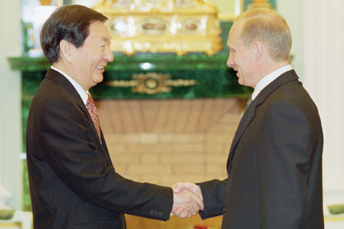 THE KREMLIN, MOSCOW. President Vladimir Putin with Zhu Rongji, Chinese State Council Prime Minister.